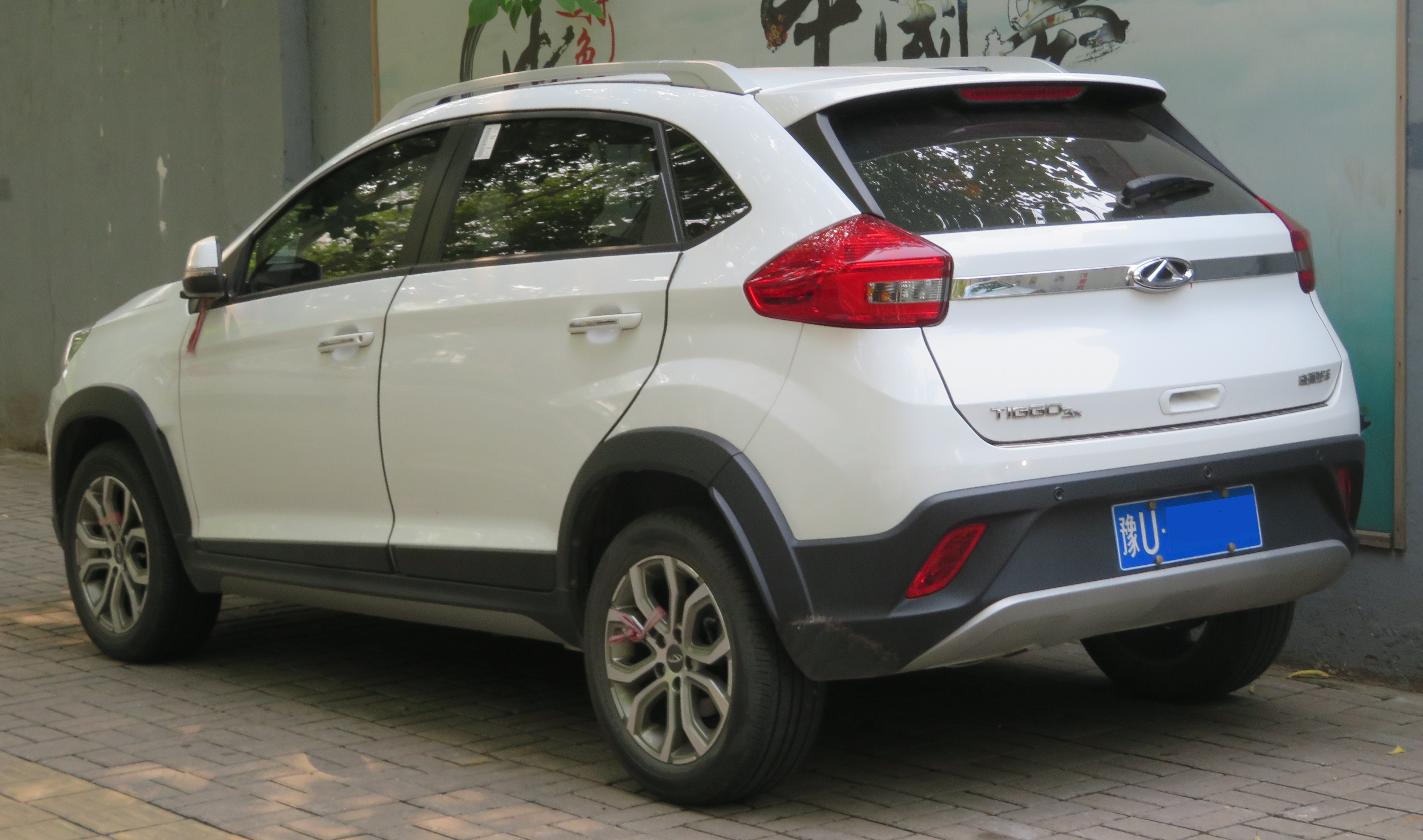 Photographed in Luoyang, Henan province, China